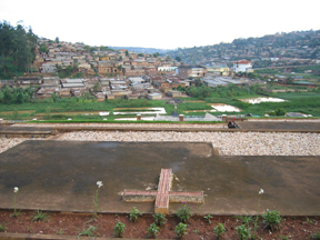 Original caption: "View from the Gisozi Genocide Memorial." Taken by the delegation of Health and Human Services Secretary Tommy Thompson on en:2 December en:2003. Memorial is located near Kigali and dedicated to the dead of the Rwandan Genocide. From